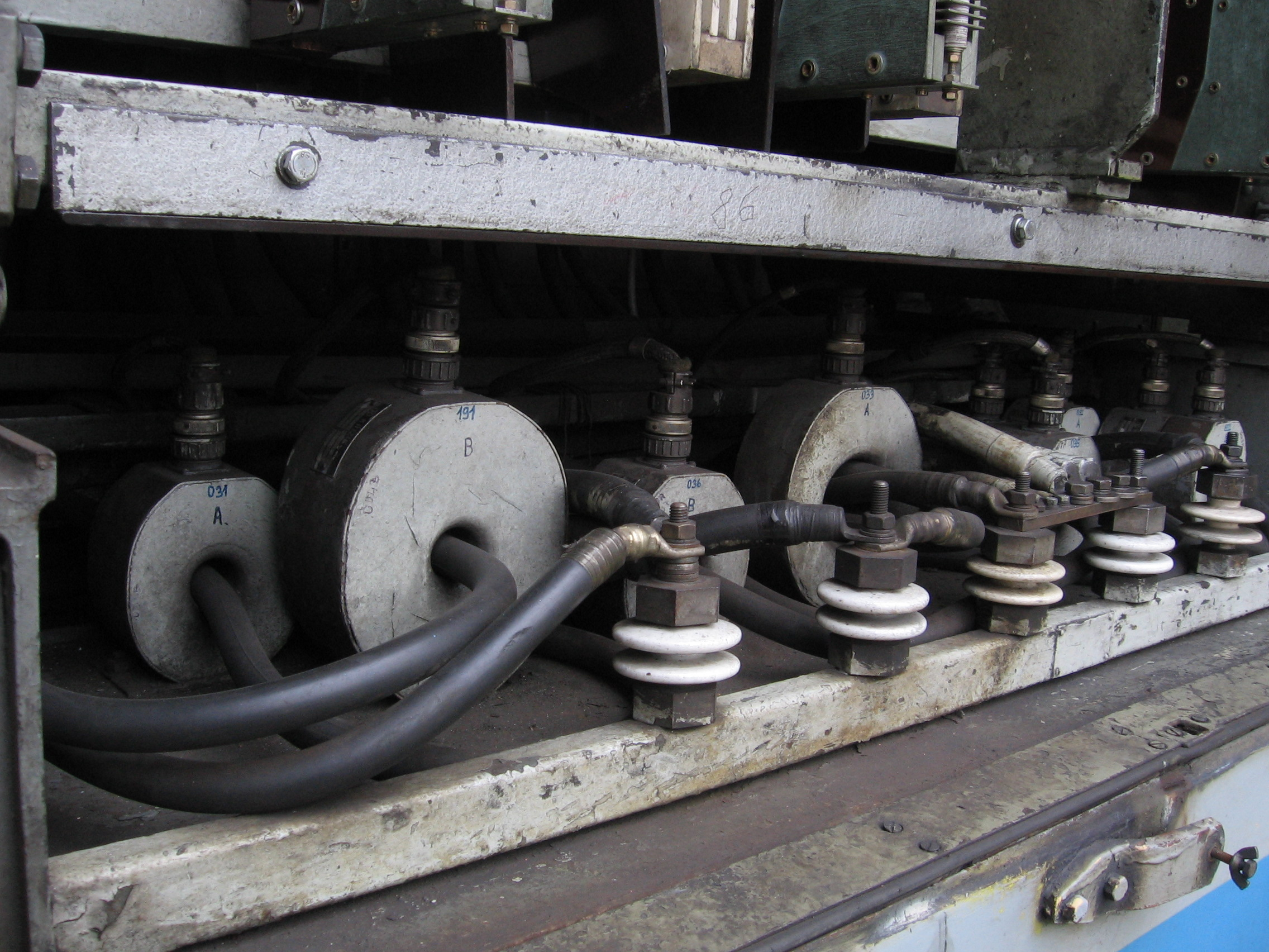 451 032 - main controller - transductors for automatic current regulation